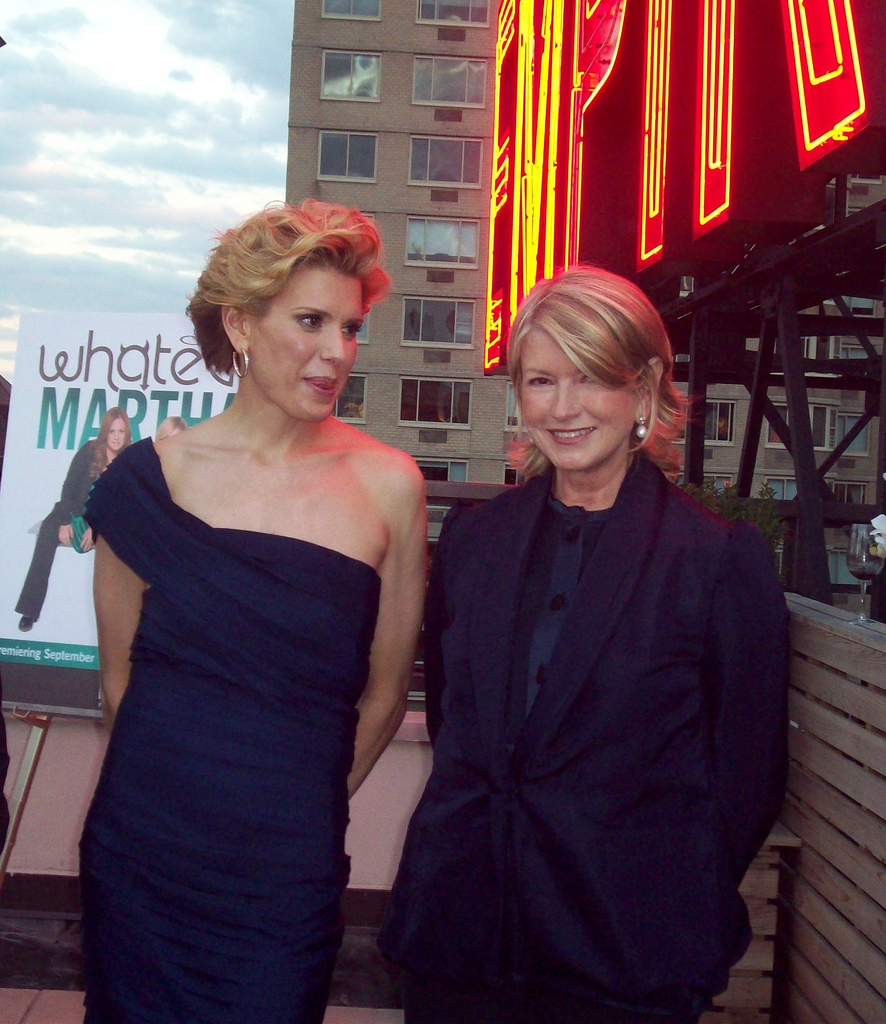 Martha Stewart and Alexis Stewart at the Whatever, Martha premiere party.